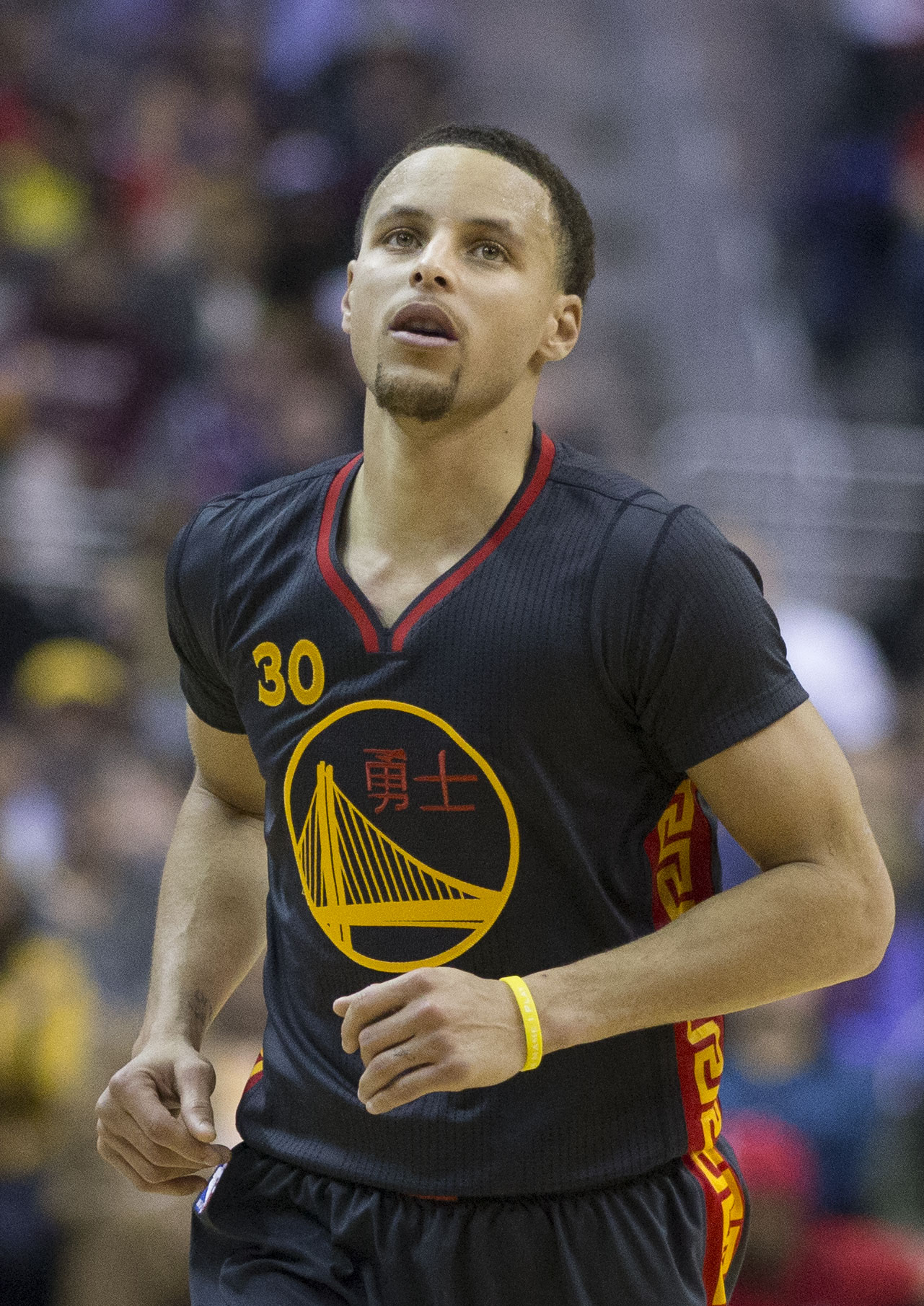 Warriors at Wizards 02/24/15